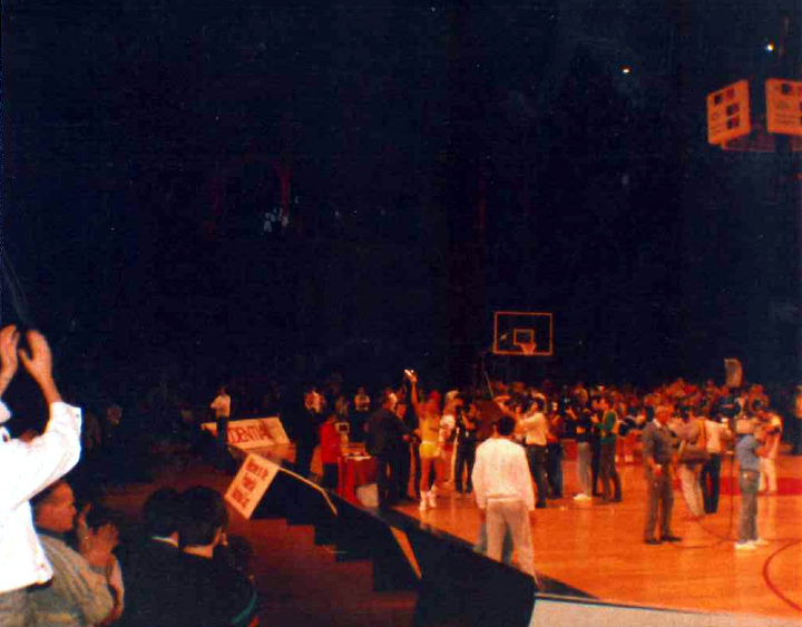 Kingston Kings, in yellow, celebrate beating Portsmouth 90-84 to win basketball's National Cup final at the Royal Albert Hall in London on 14 December 1987. Lifting the trophy is Kingston captain Steve Bontrager.